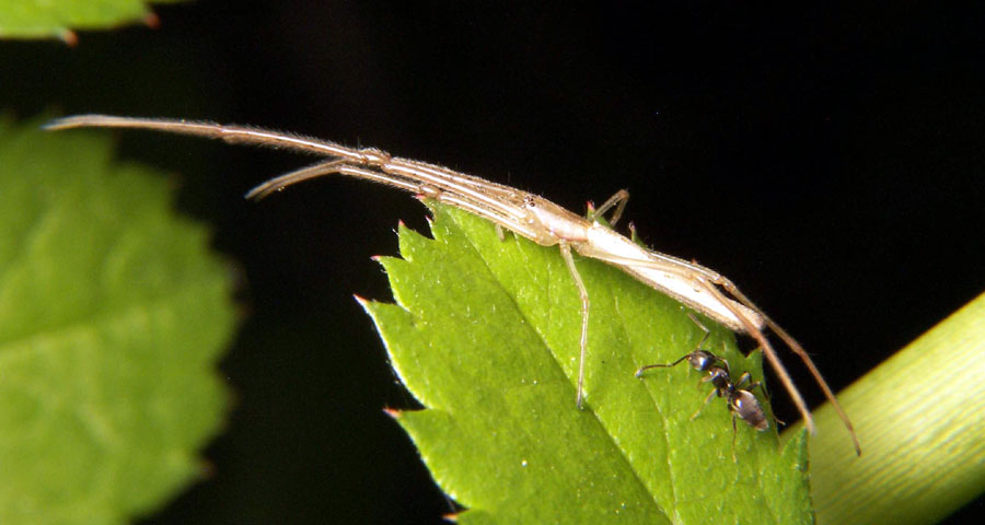 Description: jpeg image of Long-jawed Orb Weaver Spider Tetragnatha sp. Source: Own work Author: Bruce Marlin Date 07/2003 Location: Winfield IL USA other versions: none